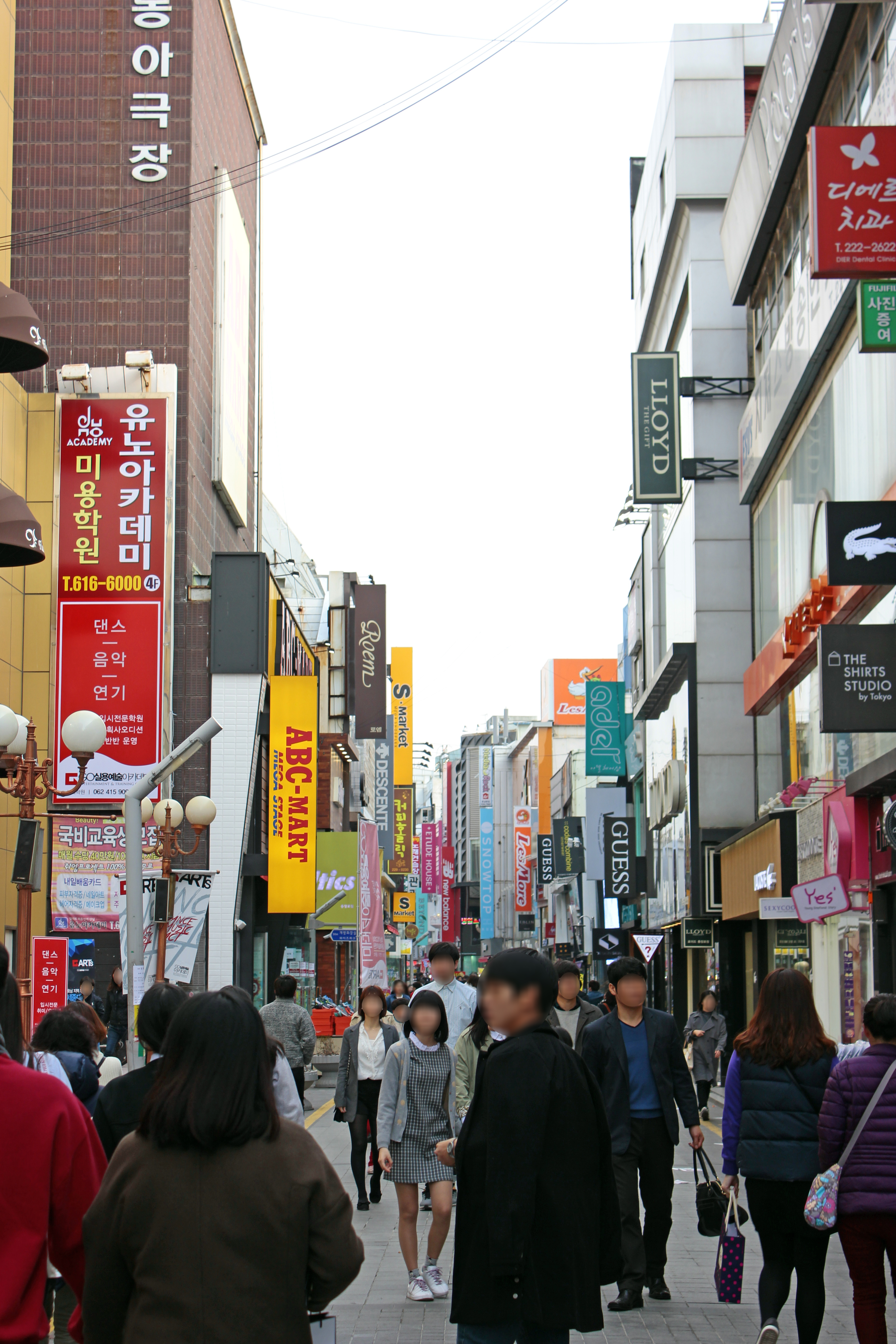 Chungjang-ro, Gwangju